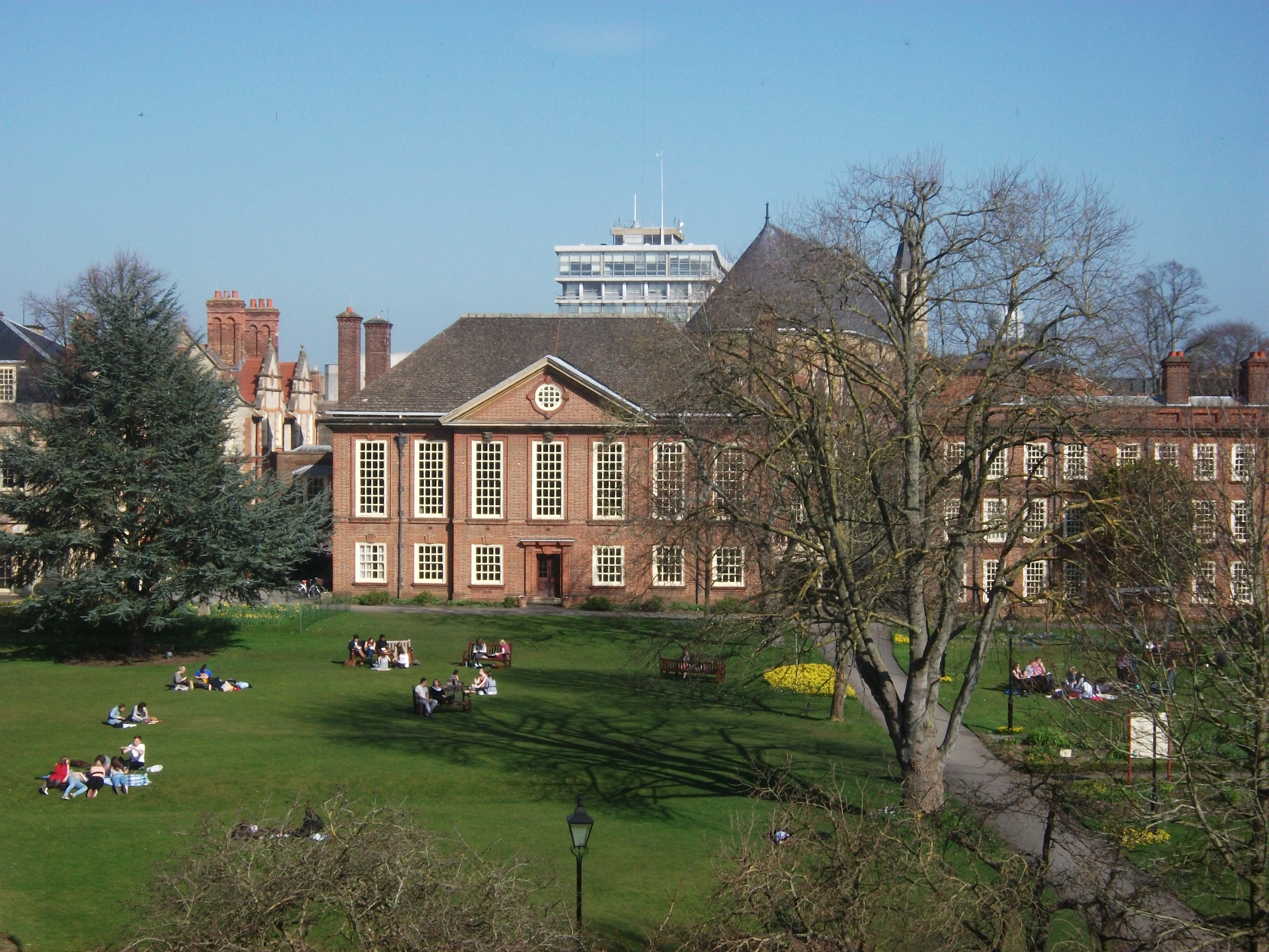 Eastwards view over the main quad of Somerville College, towards the college's hall